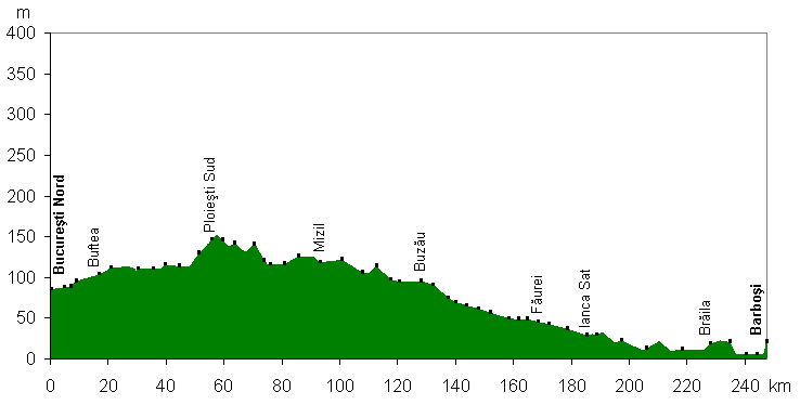 elevation profile of the railway track Bucuresti-Barbosi